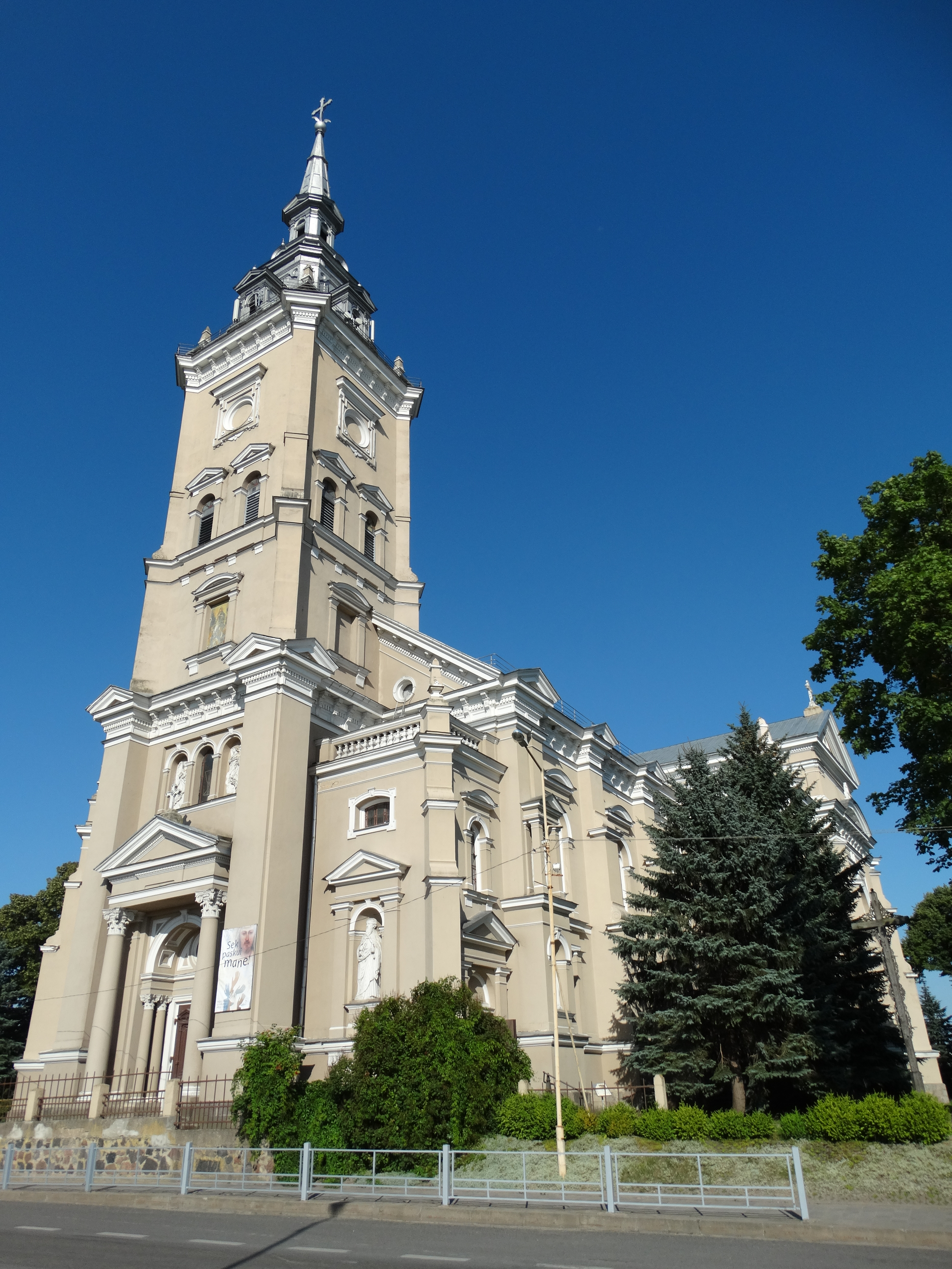 Church of the Assumption of The Holy Virgin Mary, Joniškis, Lithuania